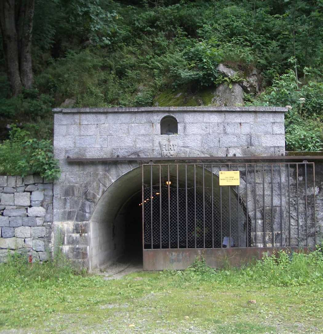 Enter of an iron mine , Traversella, Torino, Italy